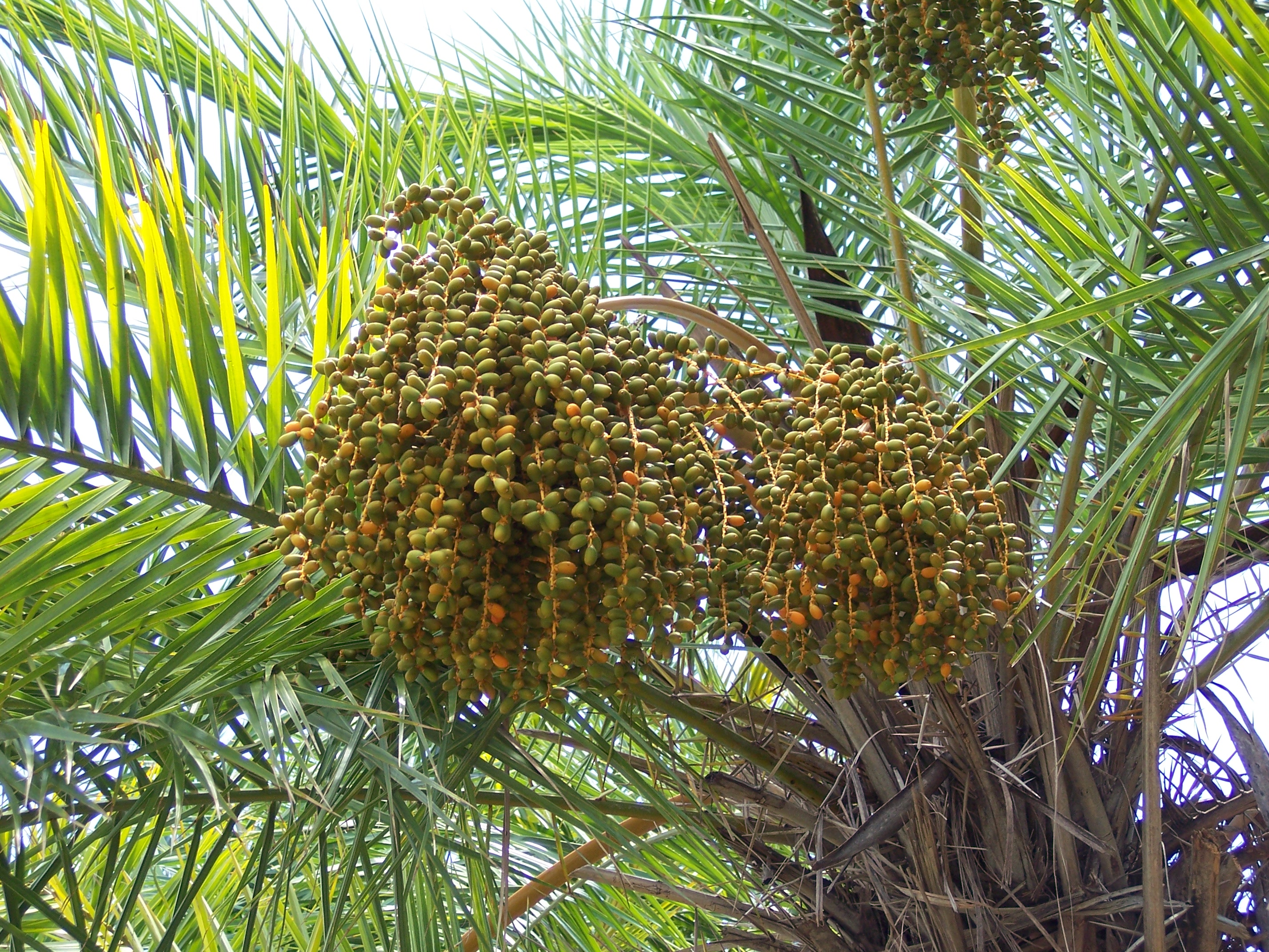 Ripening fruit of Phoenix reclinata (Wild date palm). The fruit form in pendent clusters.